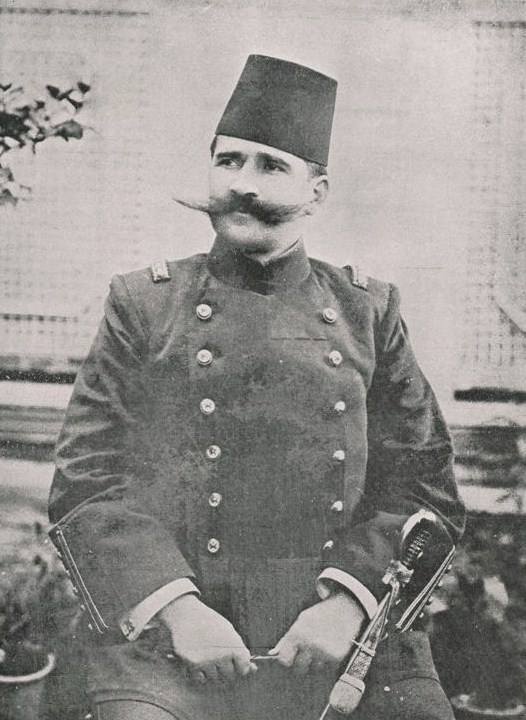 Resneli Ahmed Niyazi Bey